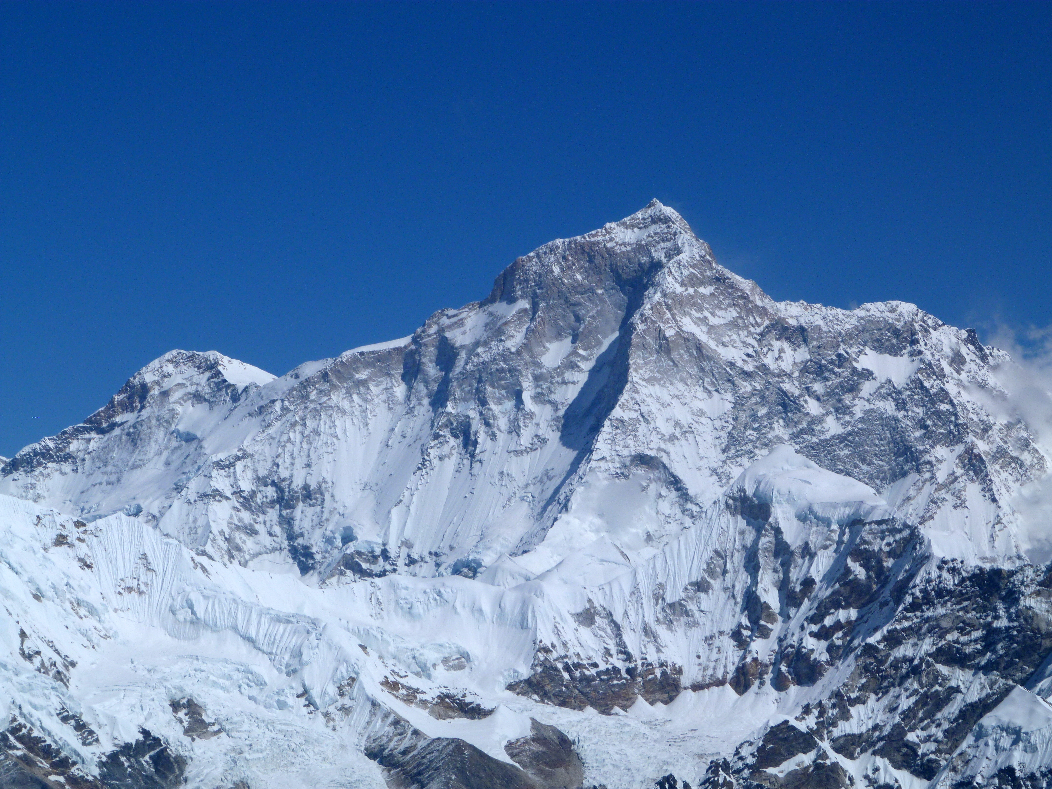 Closeup Makalu. The west-pillar is clearly visilble. Makalu II (Kangchungtse) on the left. In the foreground on the right is Hongku Chuli, a sixthousander on the ridge between Baruntse and Chamlang.